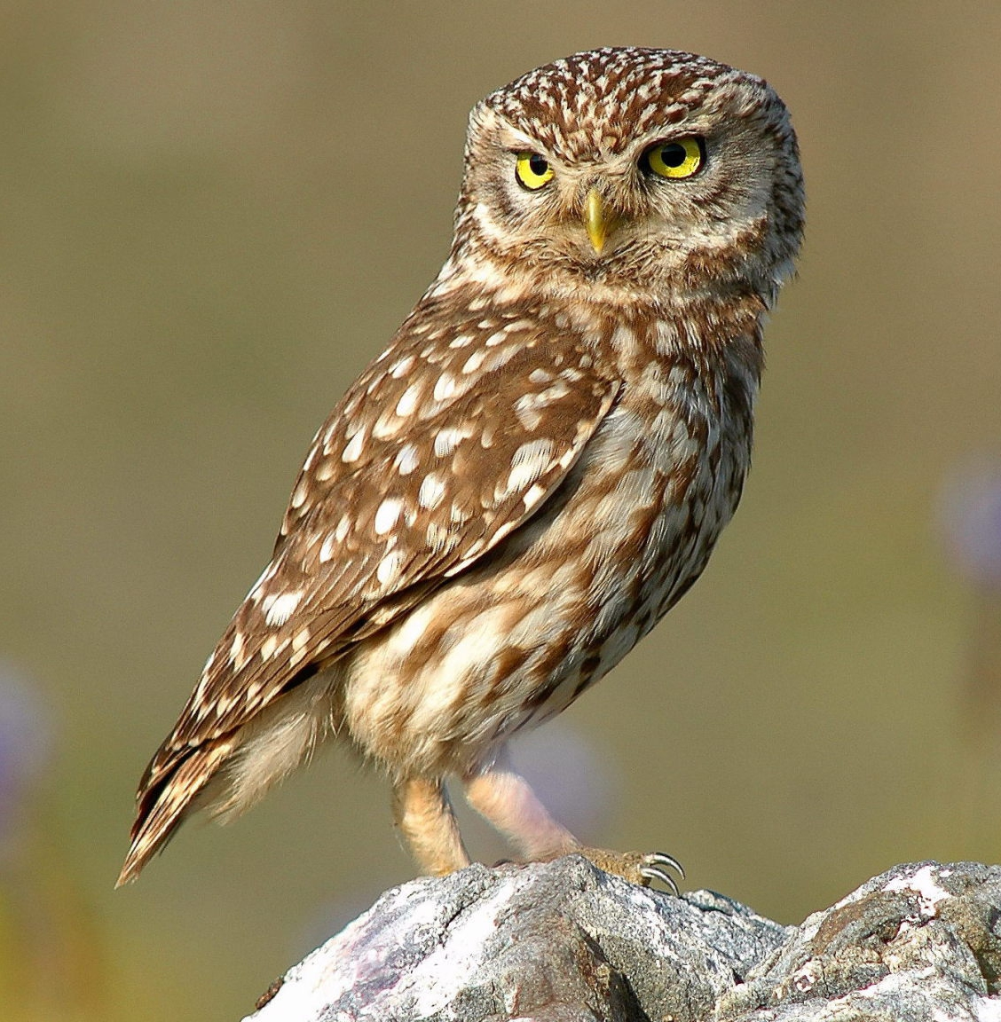 Little owl